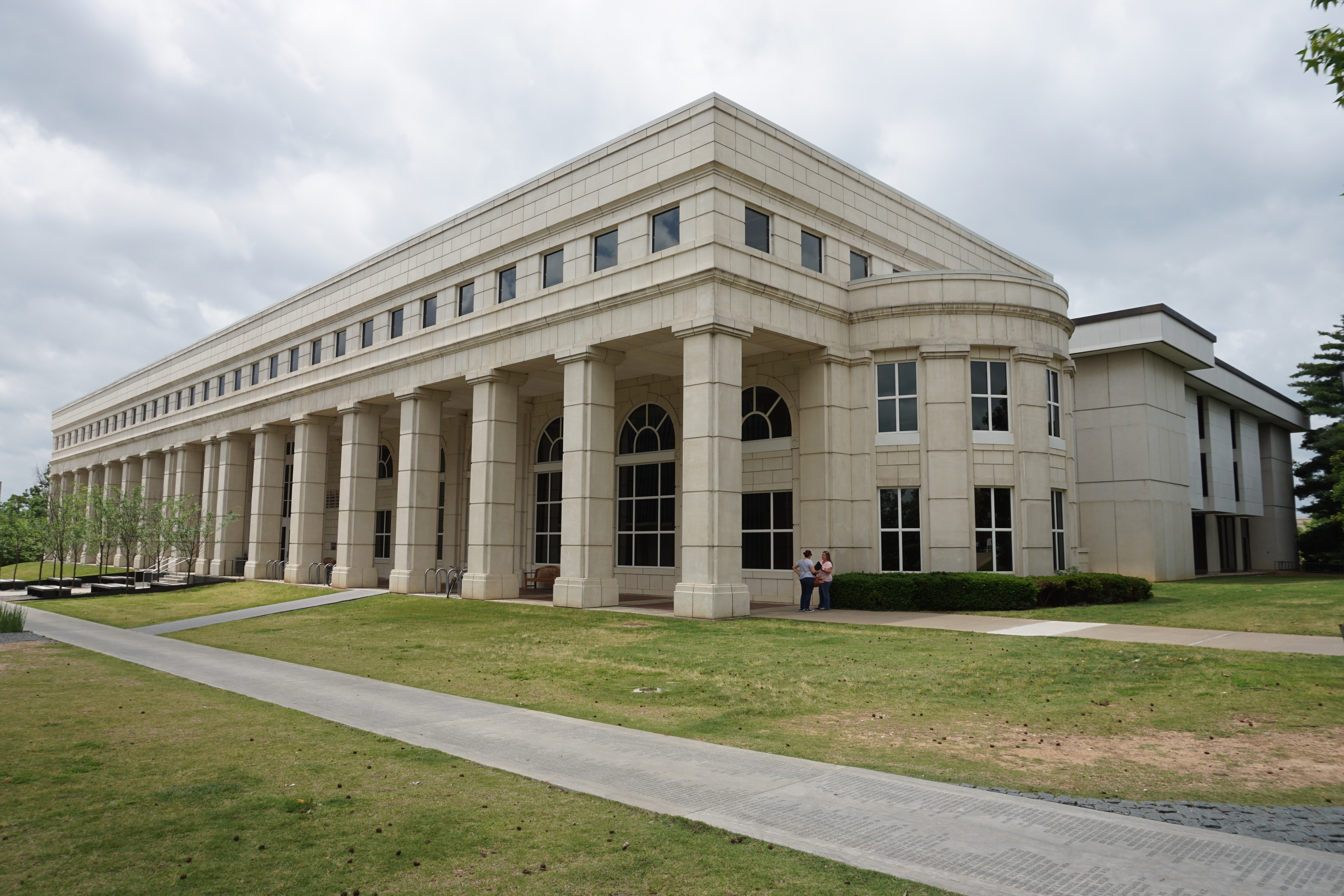 David W. Mullins Library on the campus of the University of Arkansas in Fayetteville, Arkansas (United States).